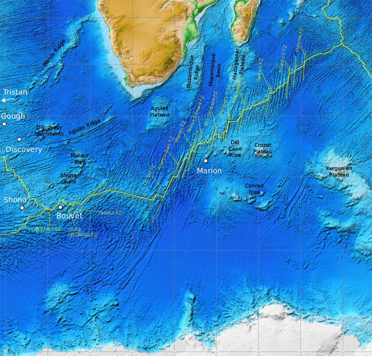 Map of the Southwest Indian Ridge. White dots–hotspots; yellow dashed lines–major fracture zones. Incomplete work in progress (bbl).